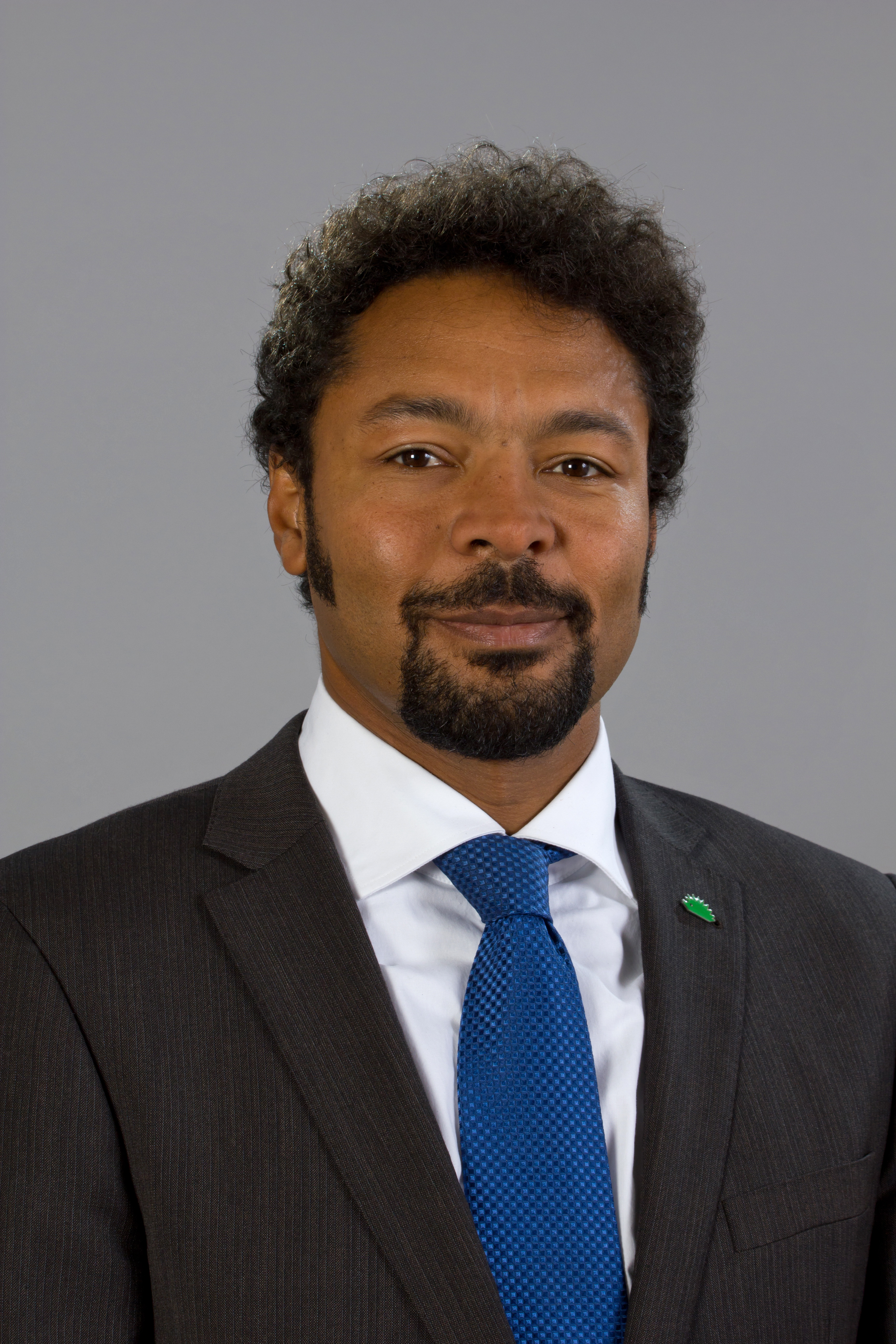 Bola Olalowo, politician from Germany, member of Abgeordnetenhaus of Berlin (as of 2013)